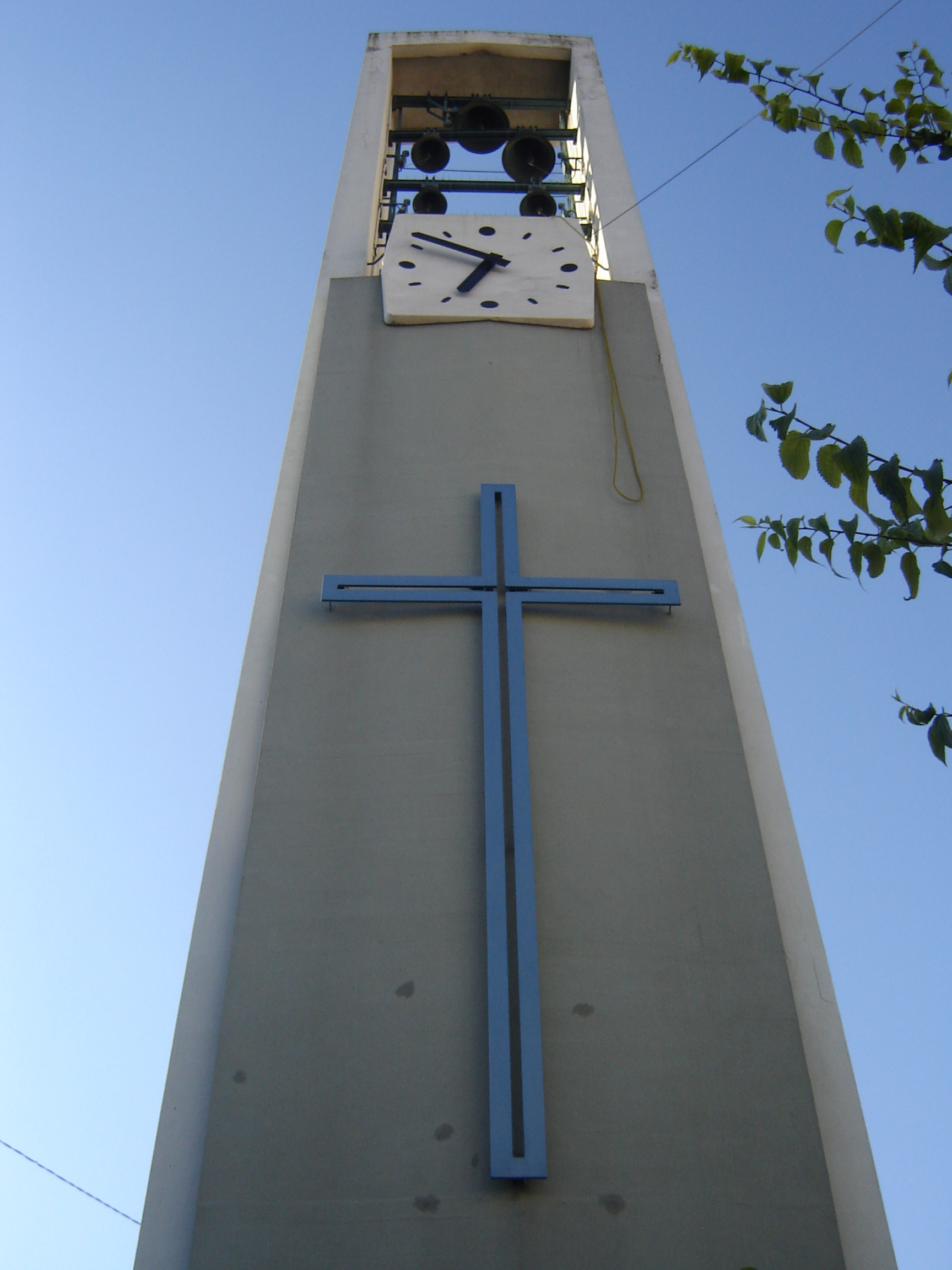 Tower of the Moscavide church, situated in Lisbon, Portugal.